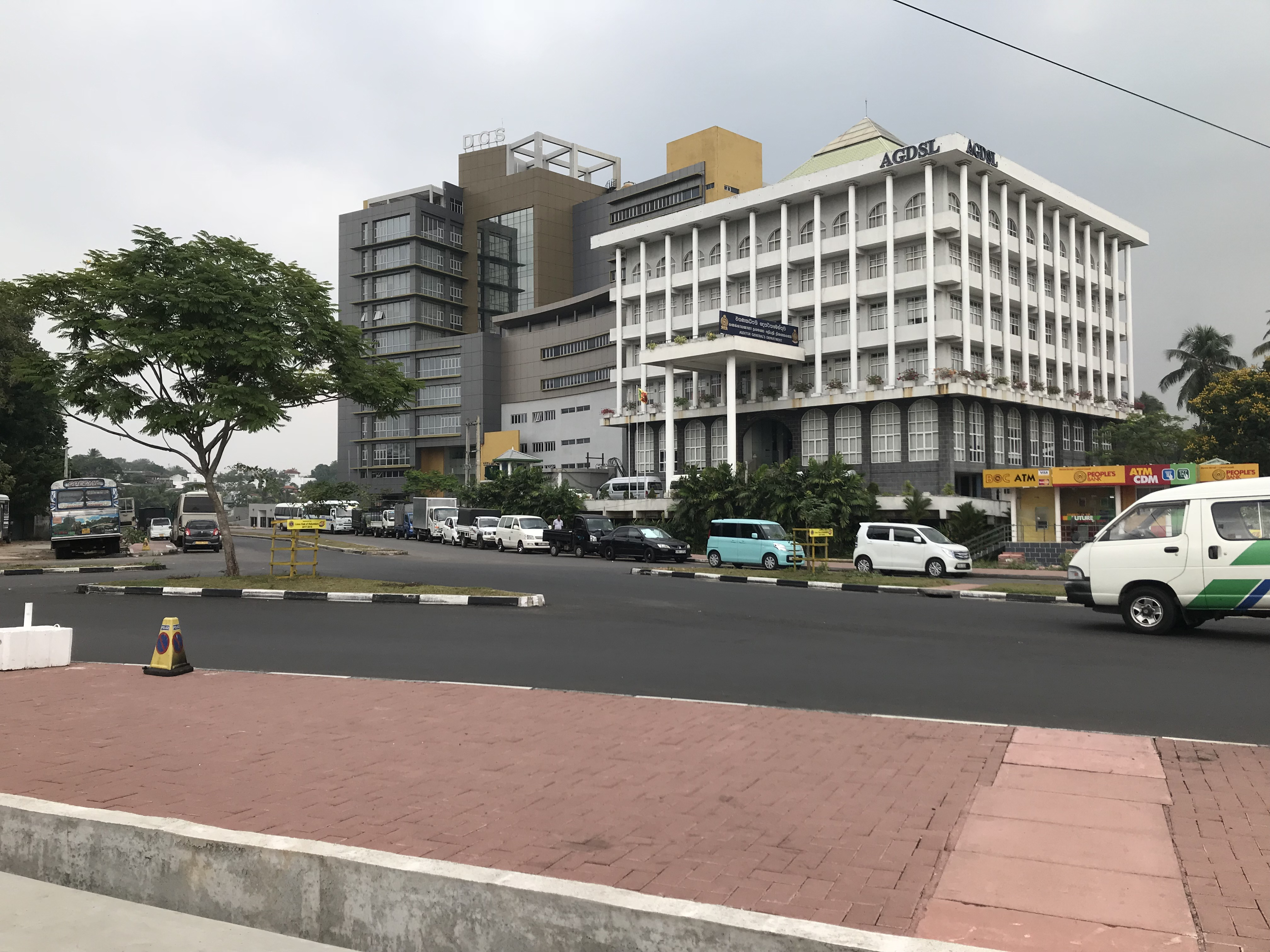 Auditor General's Department and Department Of Census And Statistics buildings of Battaramulla